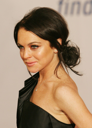 Actress Lindsay Lohan, arriving to the General Motors Annual ten Celebrity Fashion Show. Photo by Rafael Amado Deras.